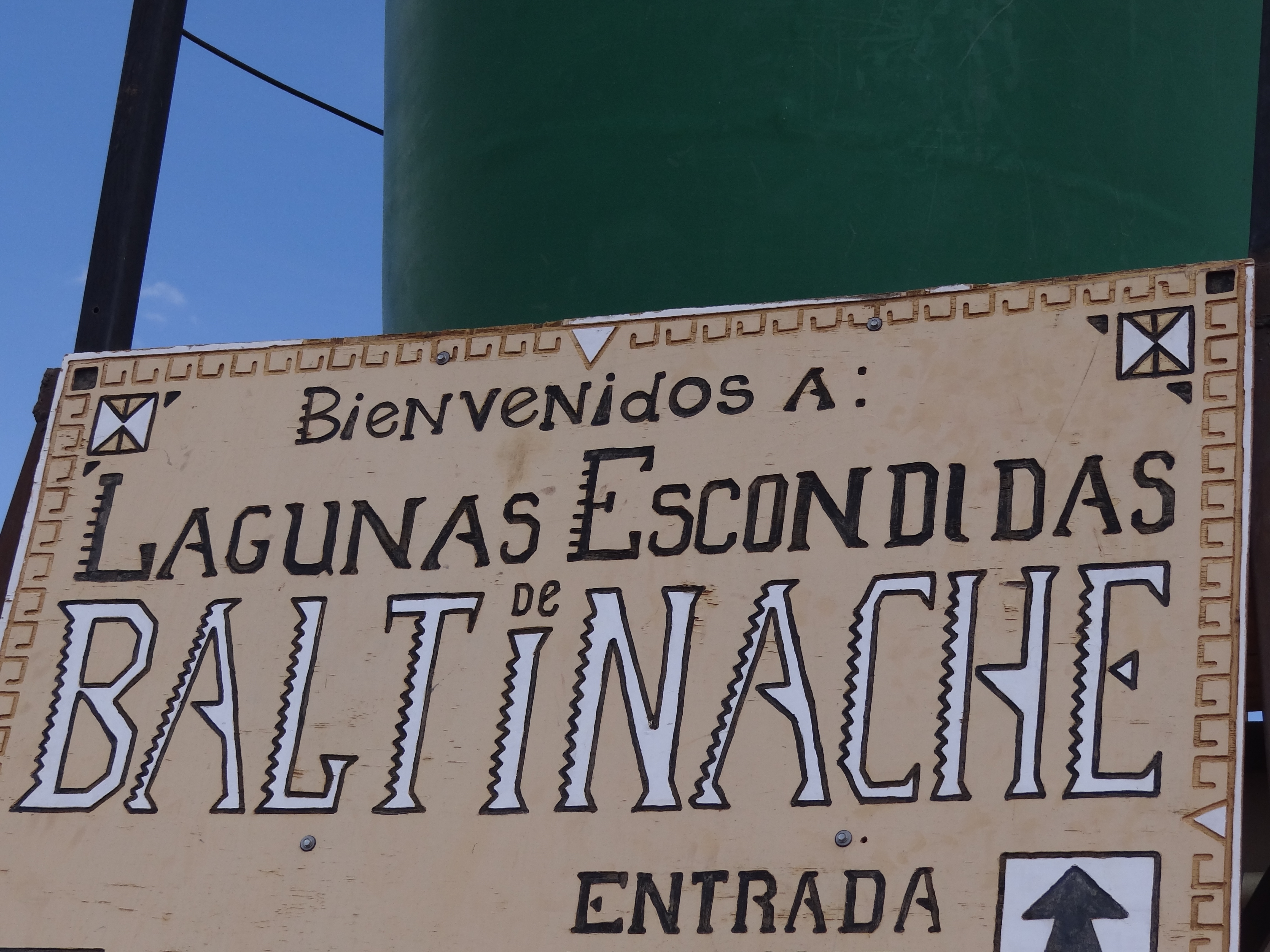 Entrance